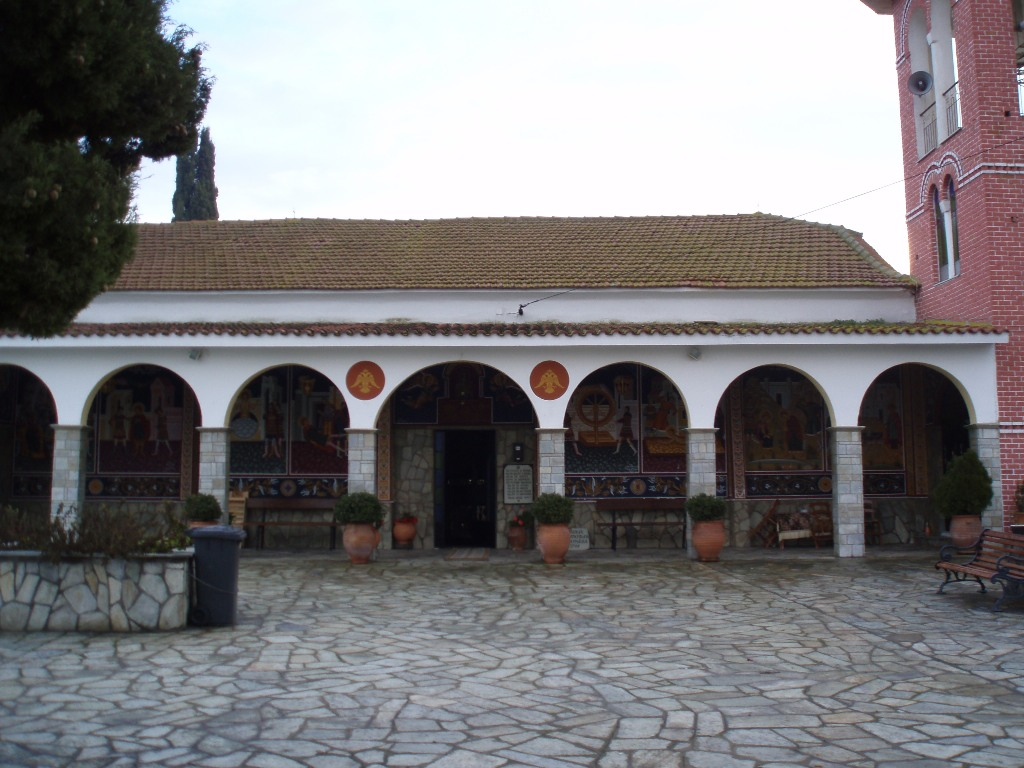 Ο Ιερός Ναός του Αγίου Γεωργίου Φερών